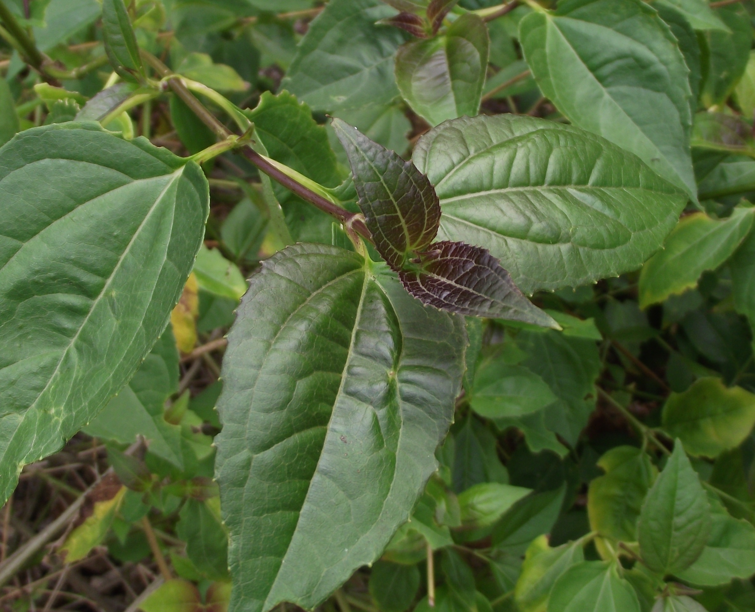 Salmea oligocephala at San Diego Botanic Garden, Encinitas, California, USA